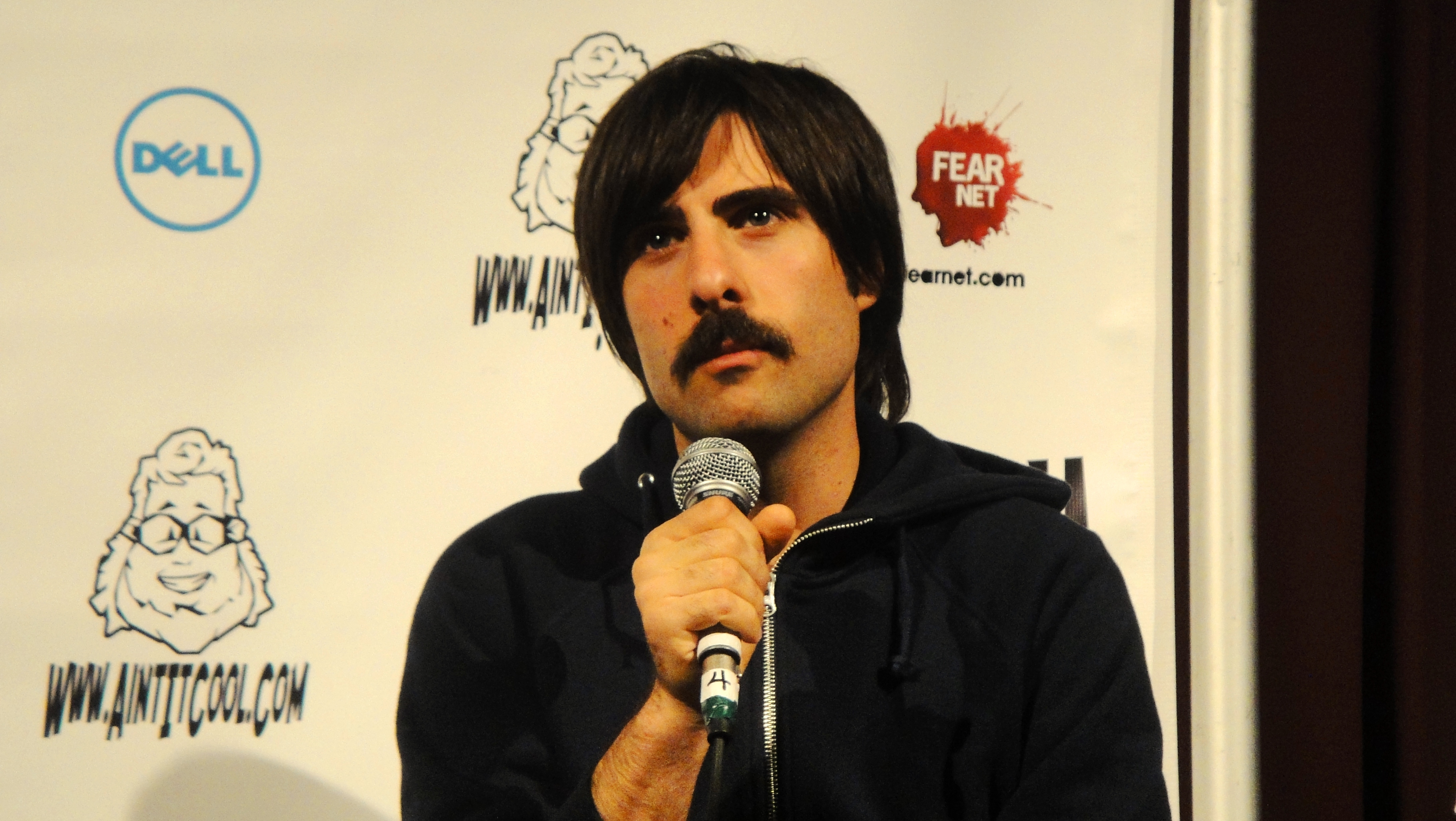 Jason Schwartzman at the Scott Pilgrim vs. The World press conference in 2010